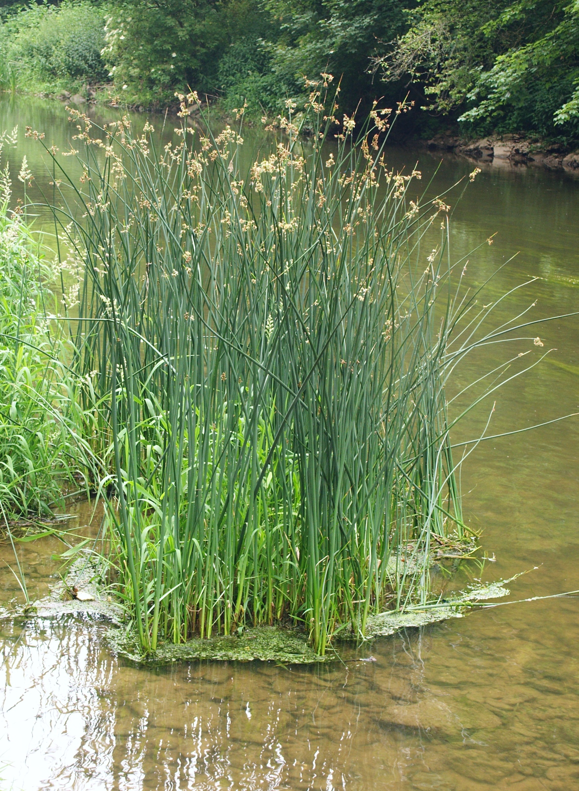 Schoenoplectus lacustris, Hohenloher Land, Germany